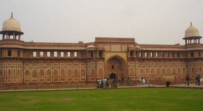 Jahangiri mahal